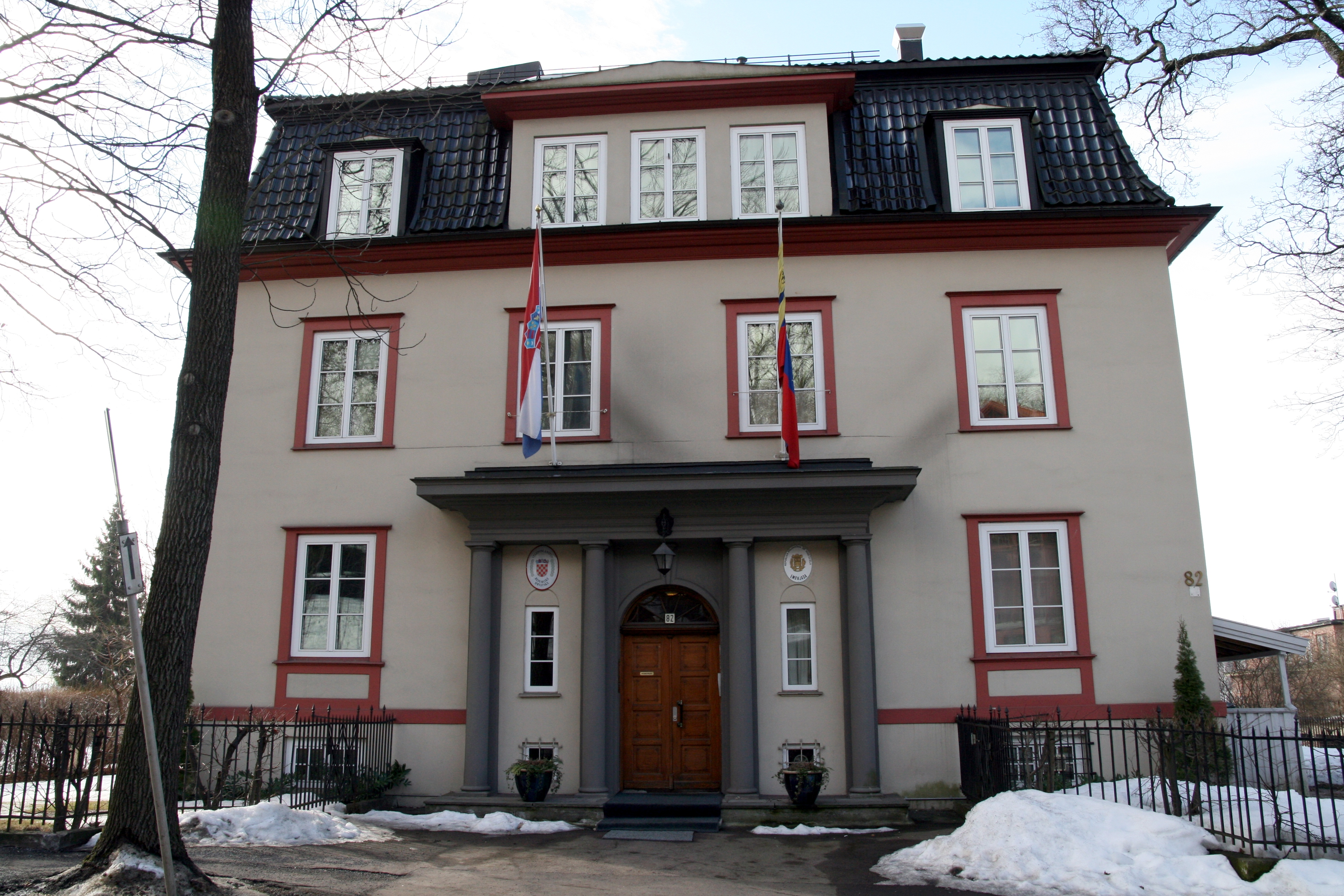 The embassy of Croatia and Venezuela, Oslo.